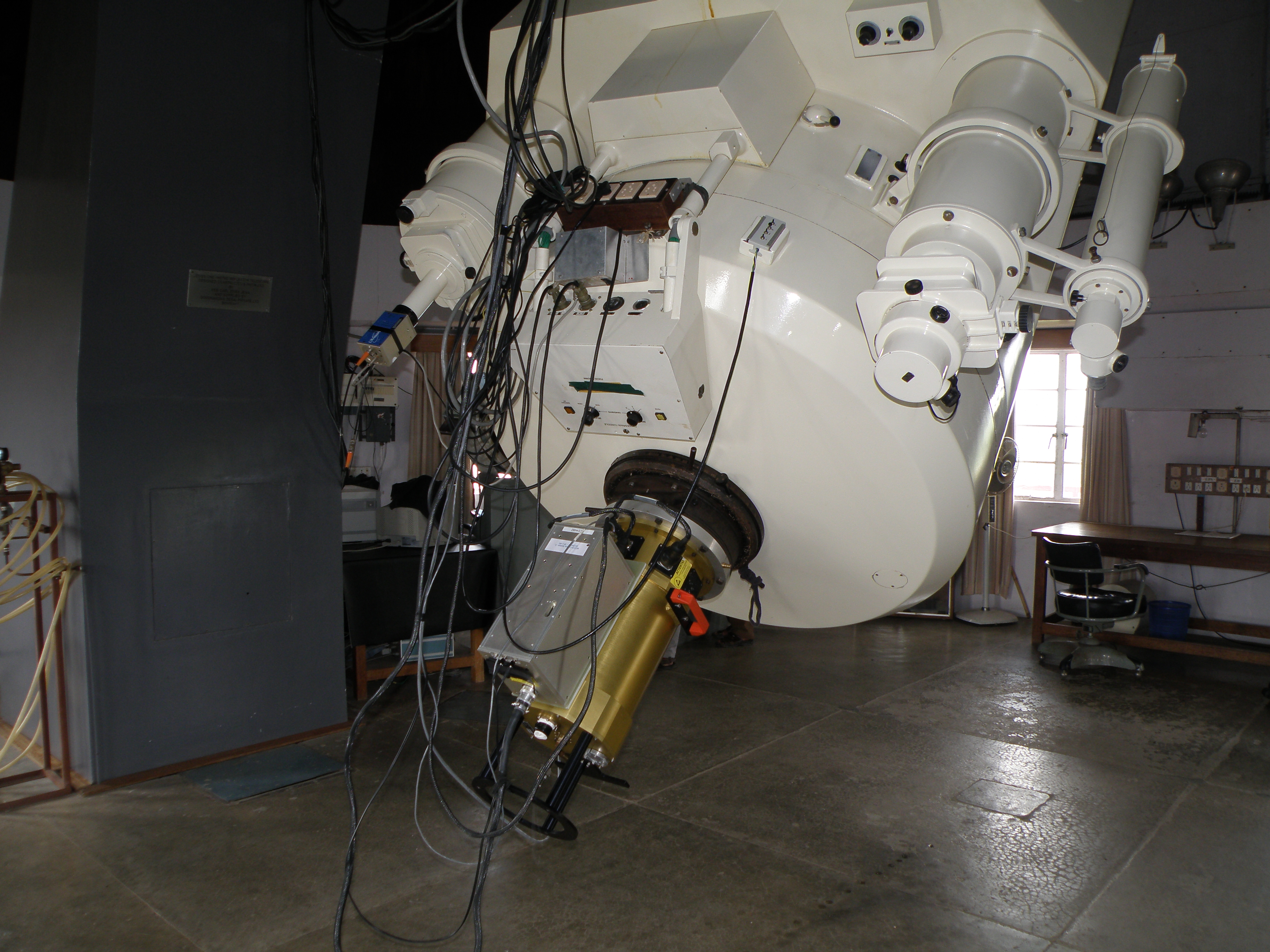 Closeup of 40-inch telescope at Vainu Bappu Observatory.